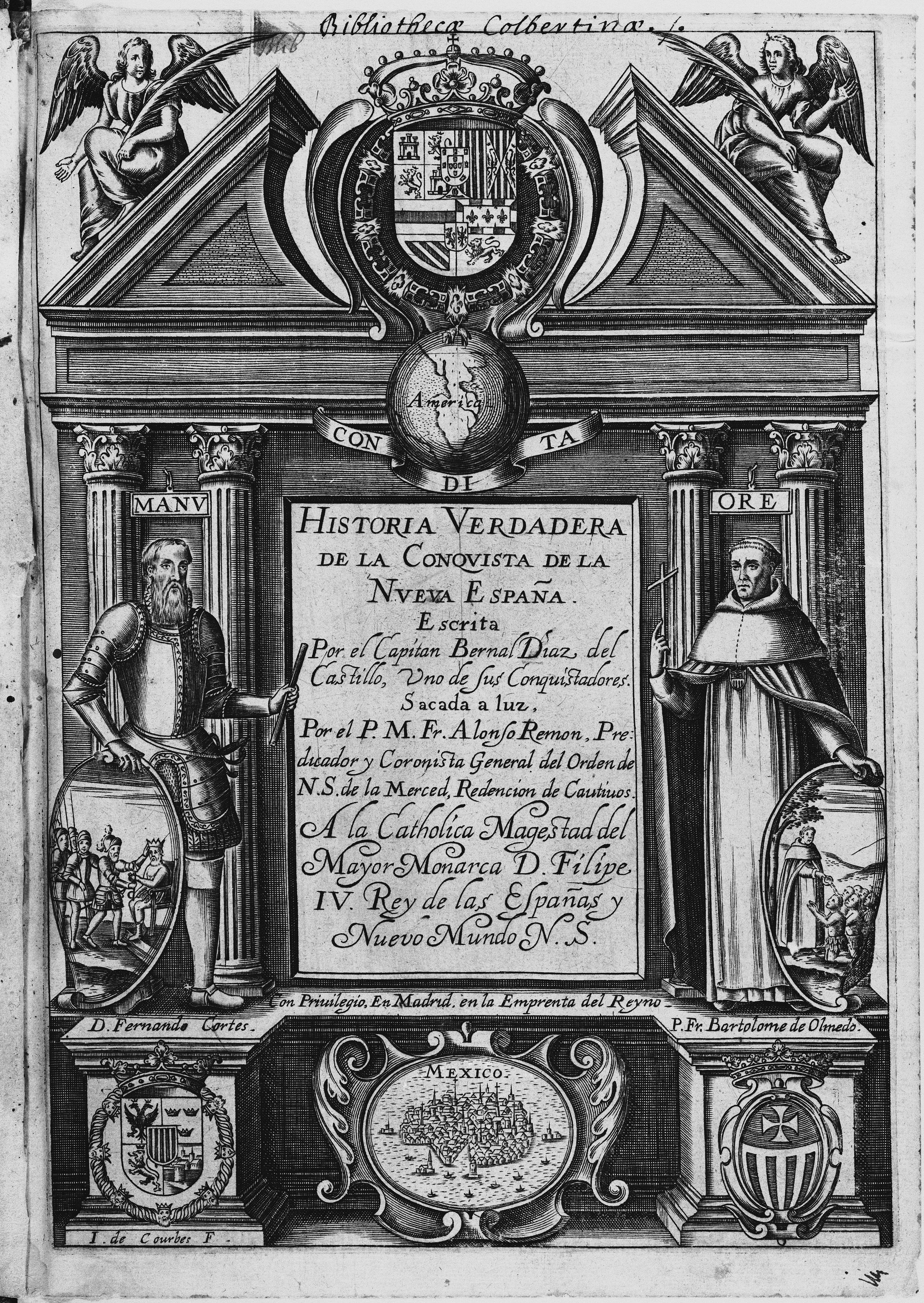 Title page of Bernal Diaz del Castillo's Historia verdadera de la conquista de la Nueva España